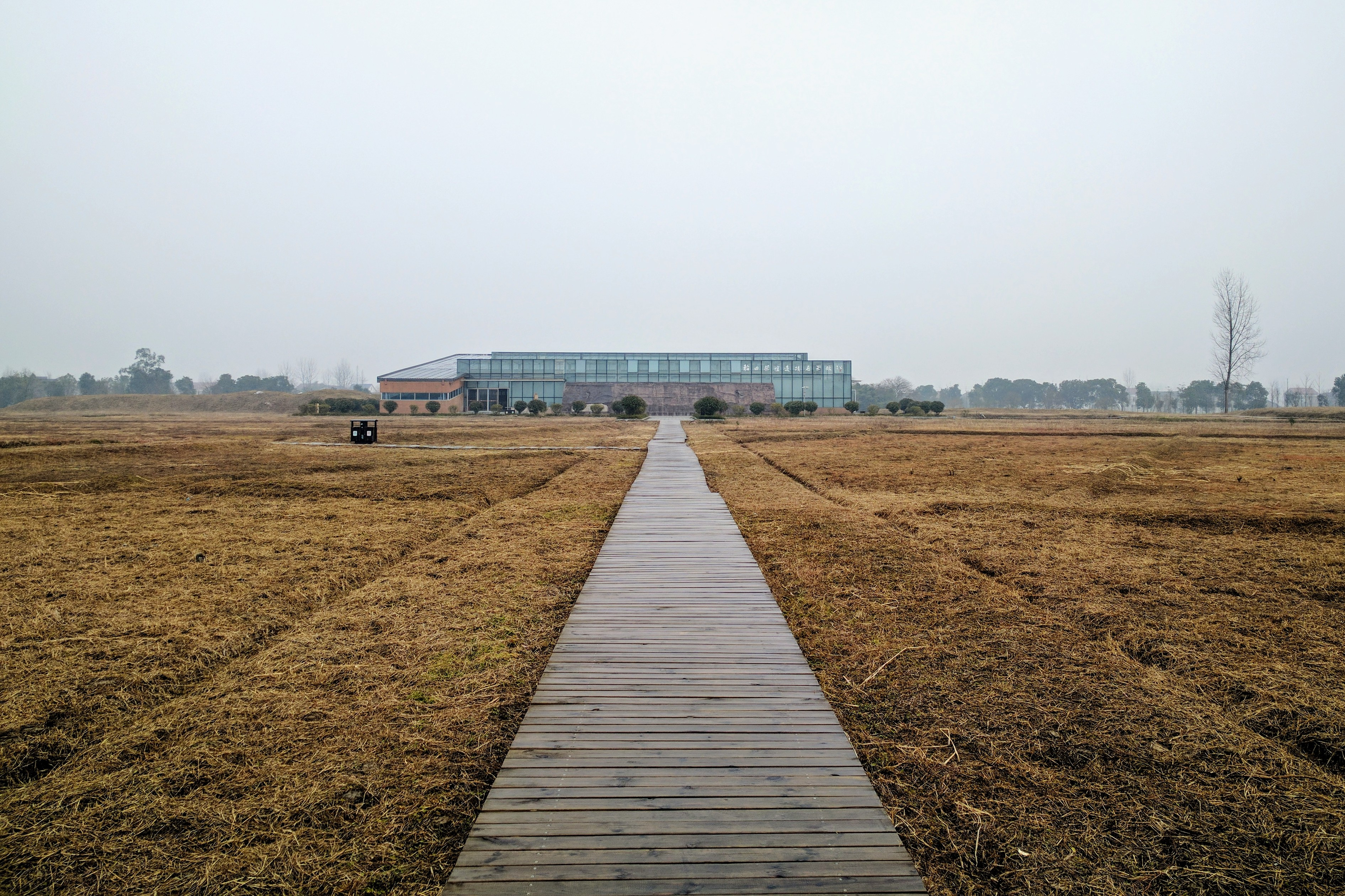 the chengtoushan ruins(only field&walls left)